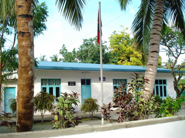 image of island office of H.A Maarandhoo